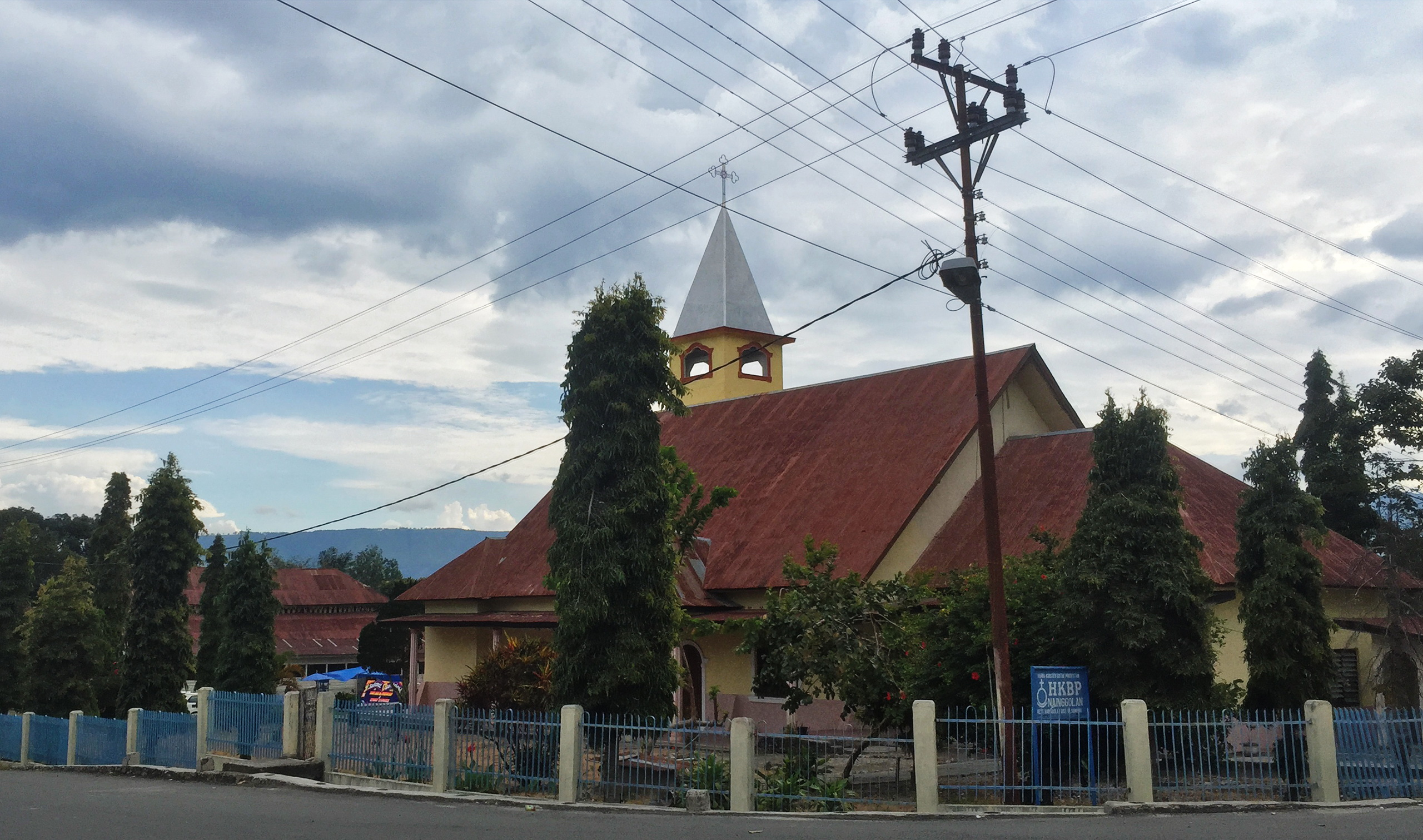 HKBP Nainggolan, Church in Nainggolan, Samosir